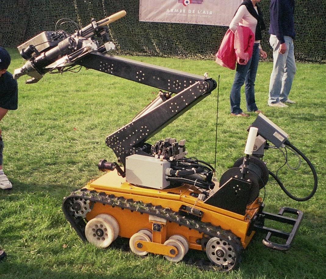 Nation/Defense days, Esplanade des Invalides, Paris, France, September 24-25, 2005